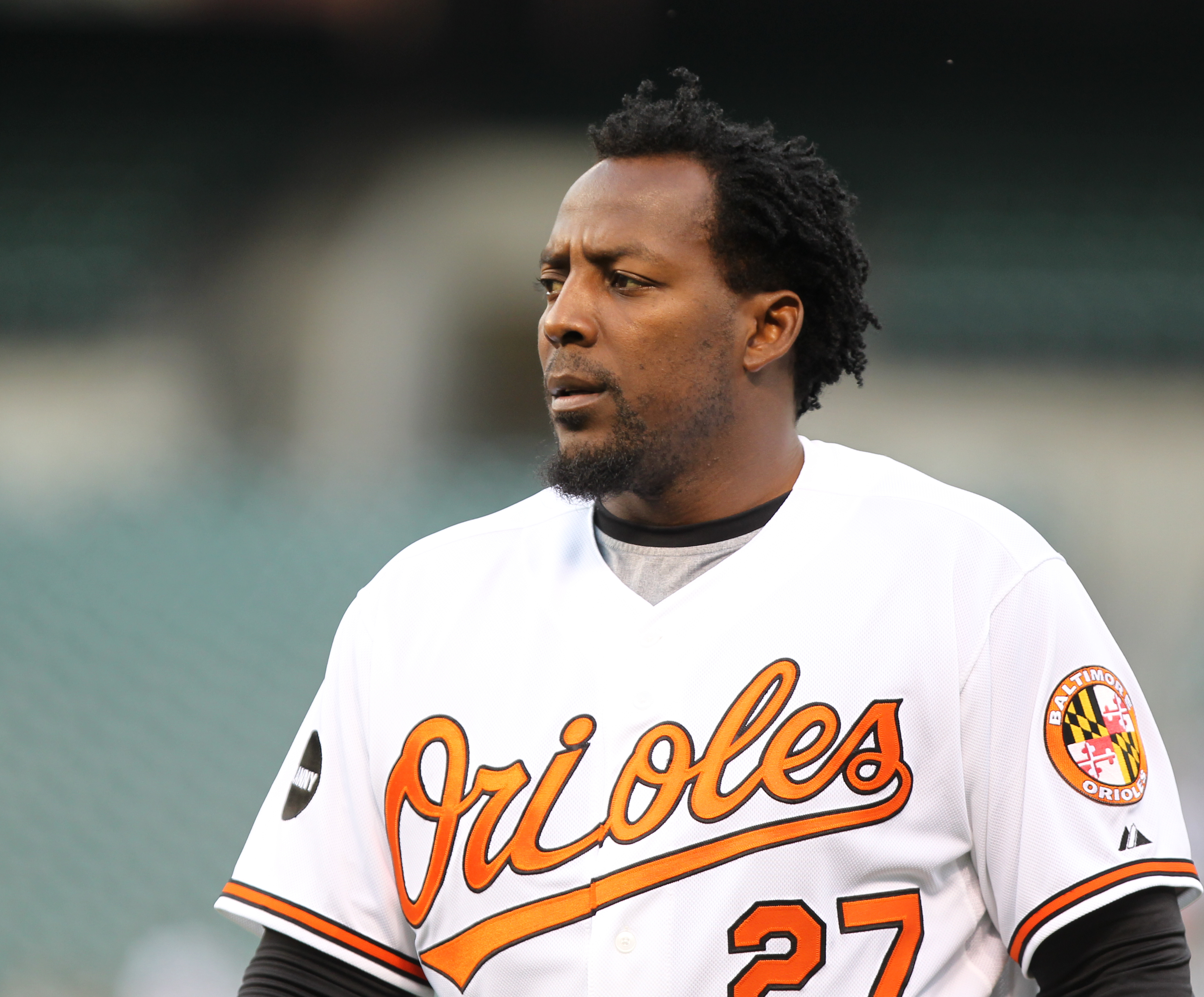 Blue Jays at Orioles August 31, 2011